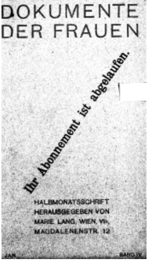 Feminist journal Dokumente der Frauen published by Marie Lang between 1898 and 1902. (Specific issue Vol. 4, Nr. 20, 15 January 1901)